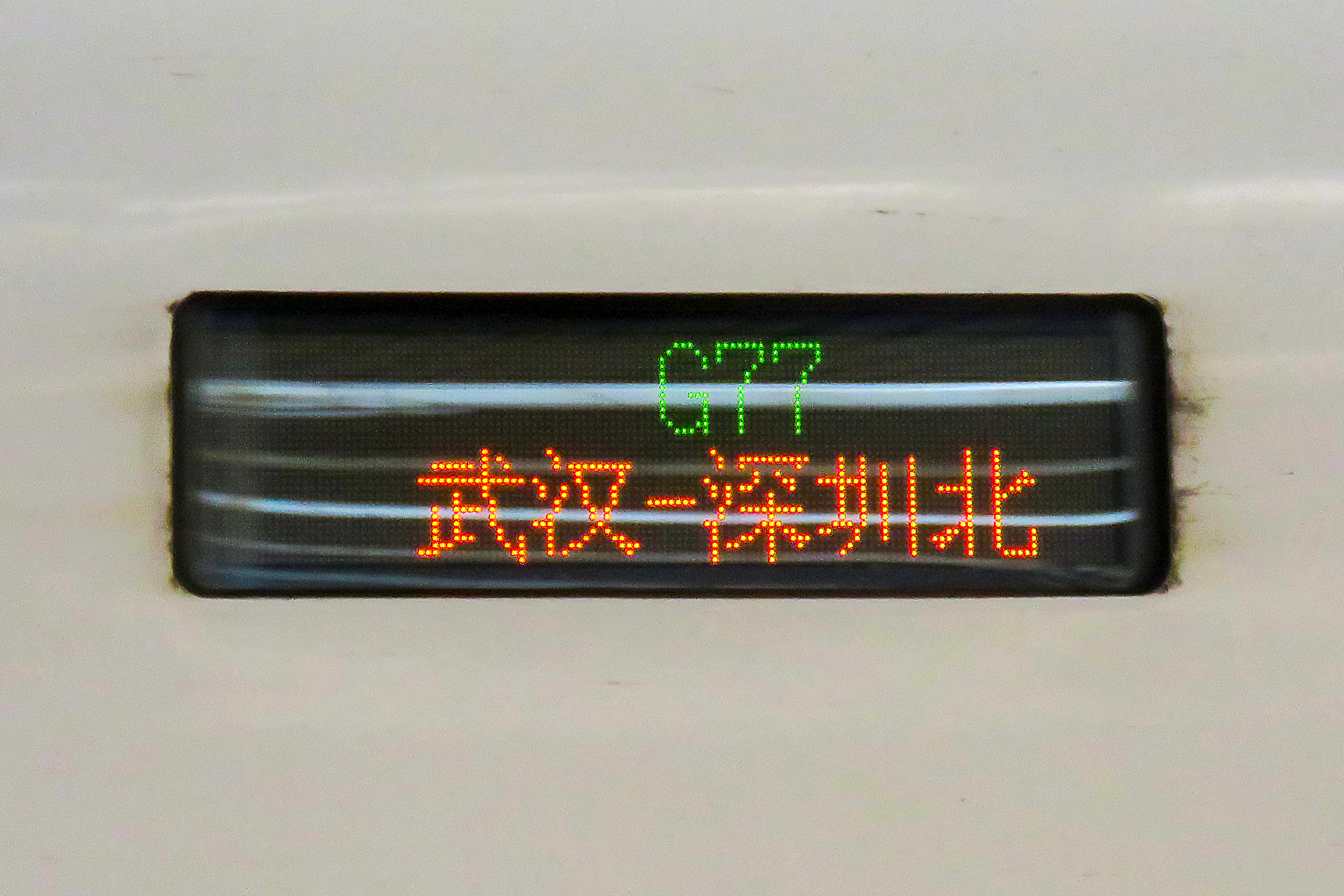 Can't avoid the lights.